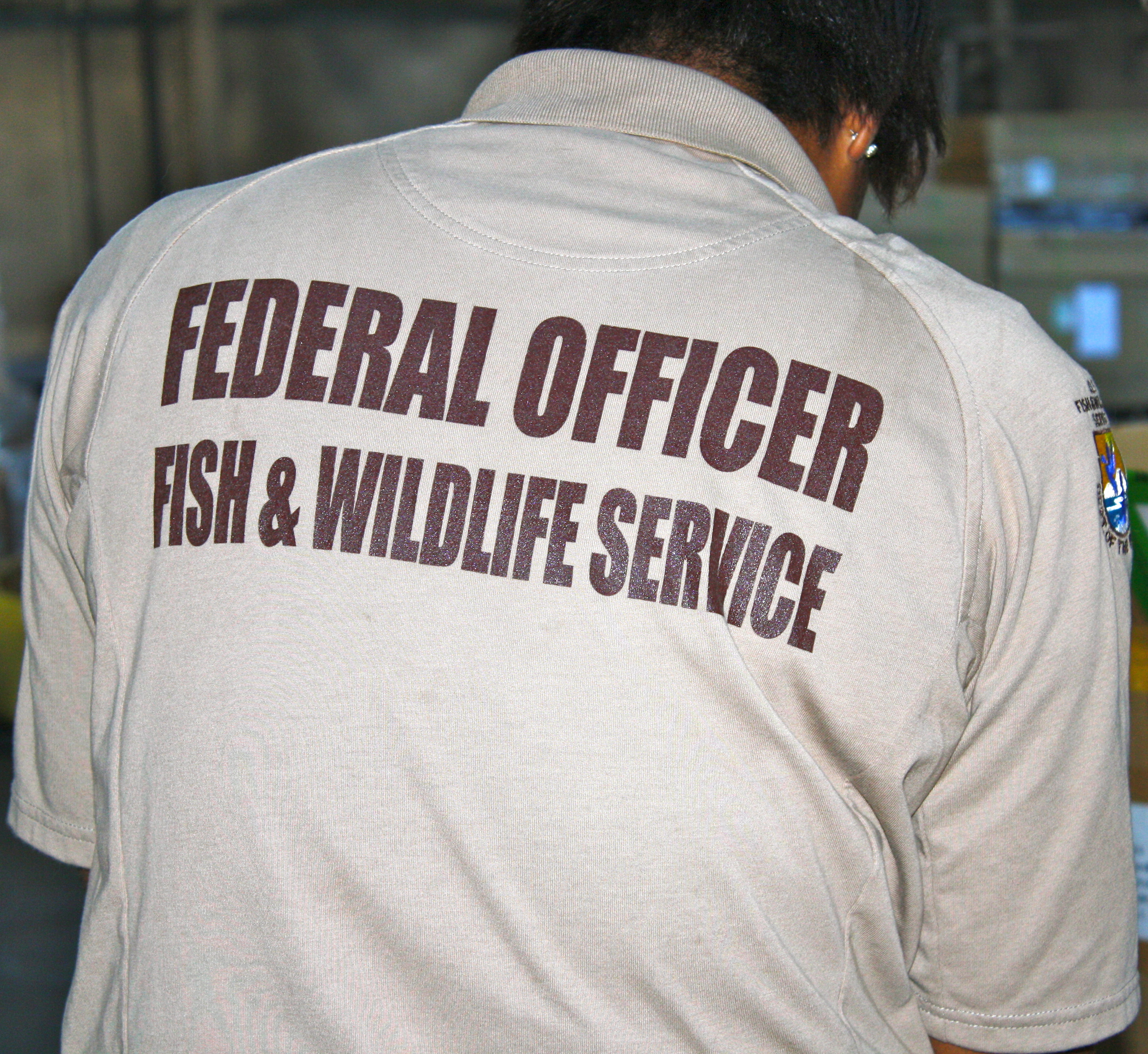 Wildlife Inspectors are uniformed federal officers stationed at wildlife ports of entry around the country. Credit: Bill Butcher/USFWS